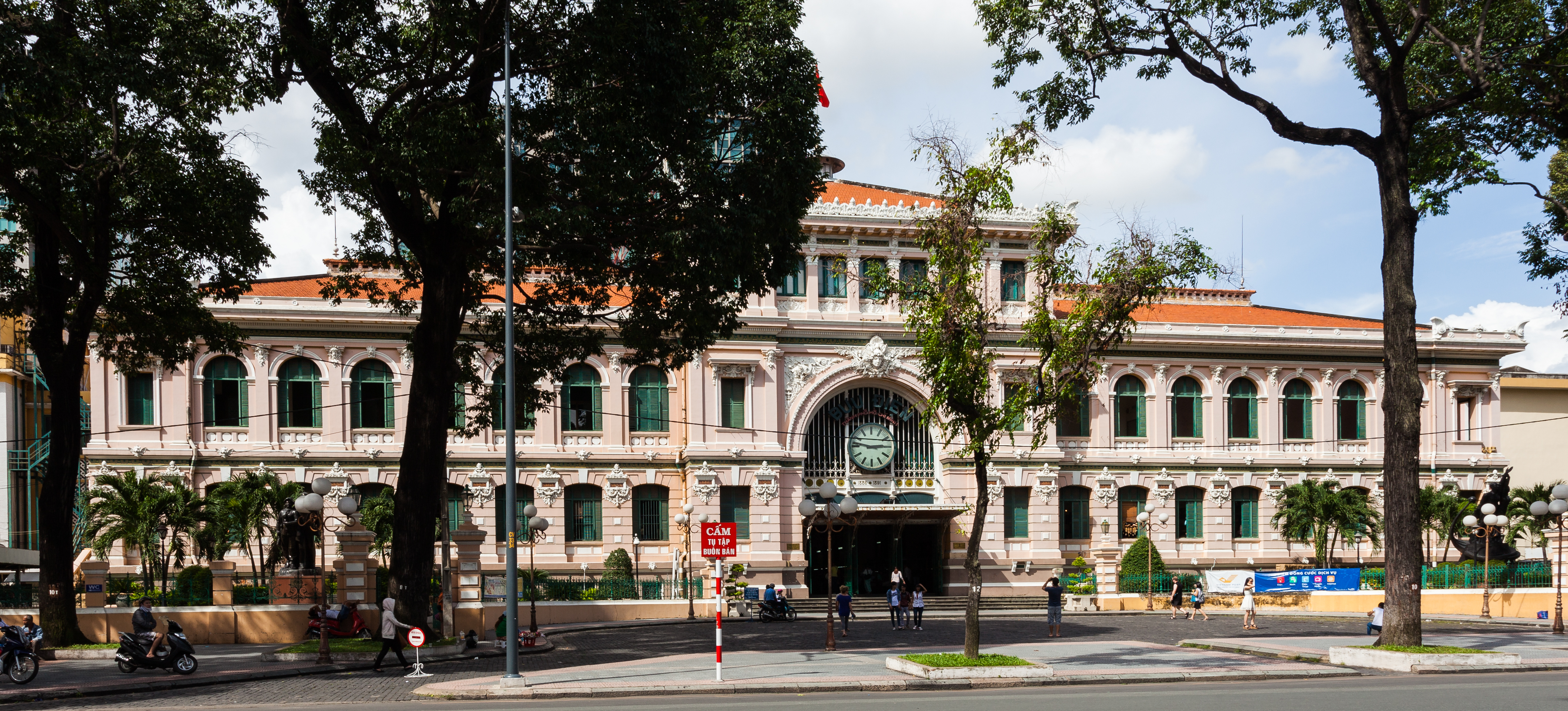 Central Post Office, Ho Chi Minh City, Vietnam